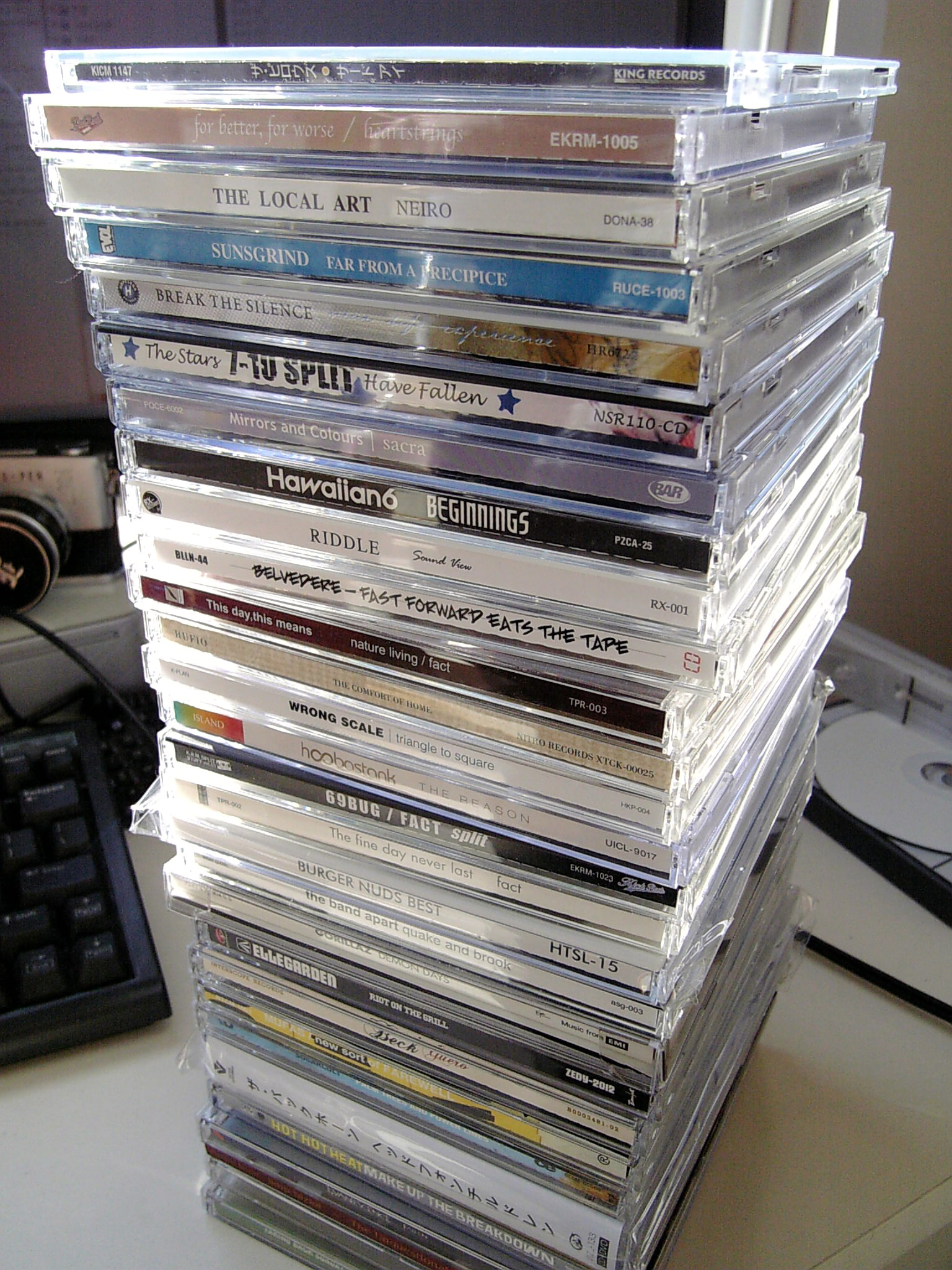 Bundle of CDs.